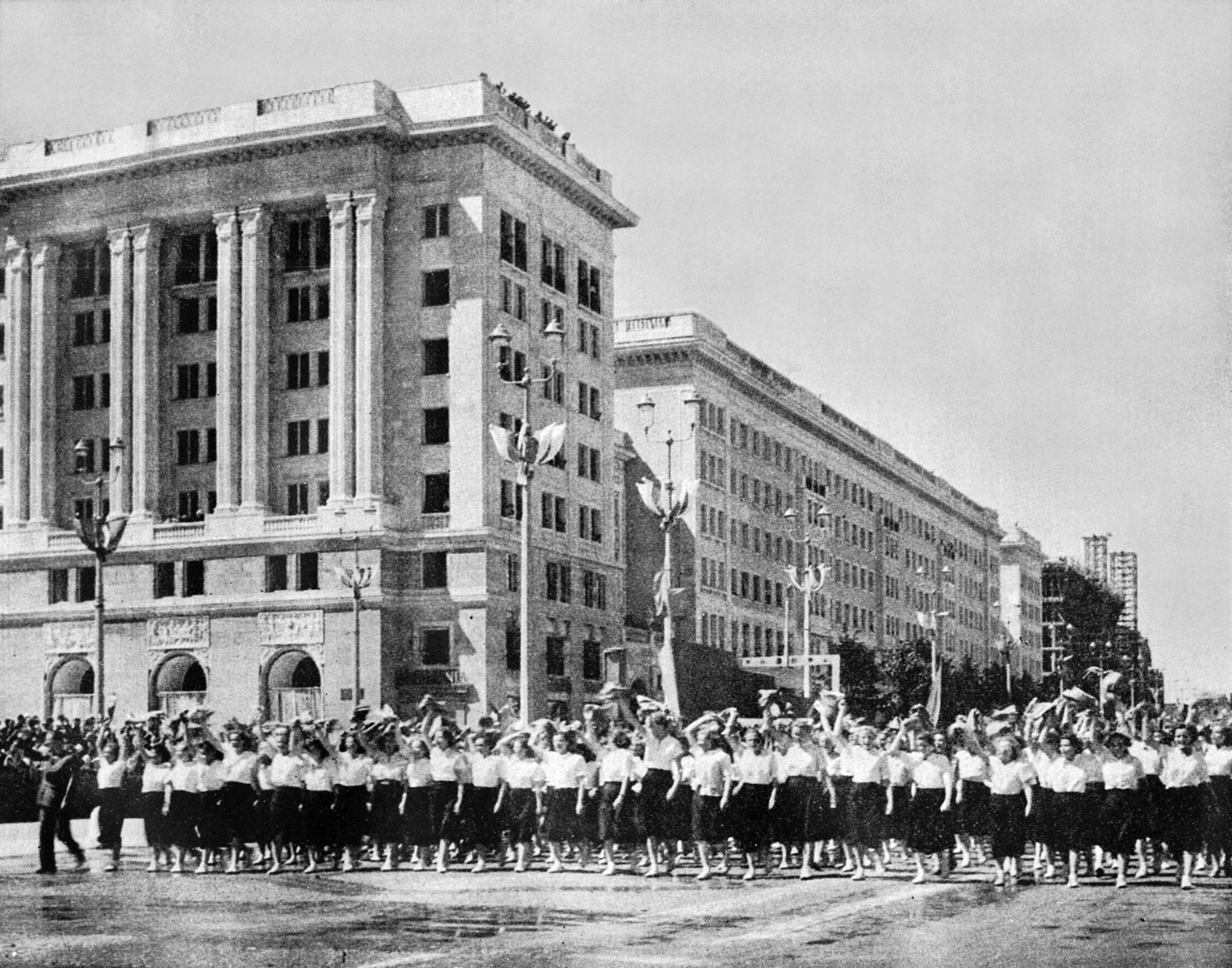 Polish youth organization marching on 22 July 1952